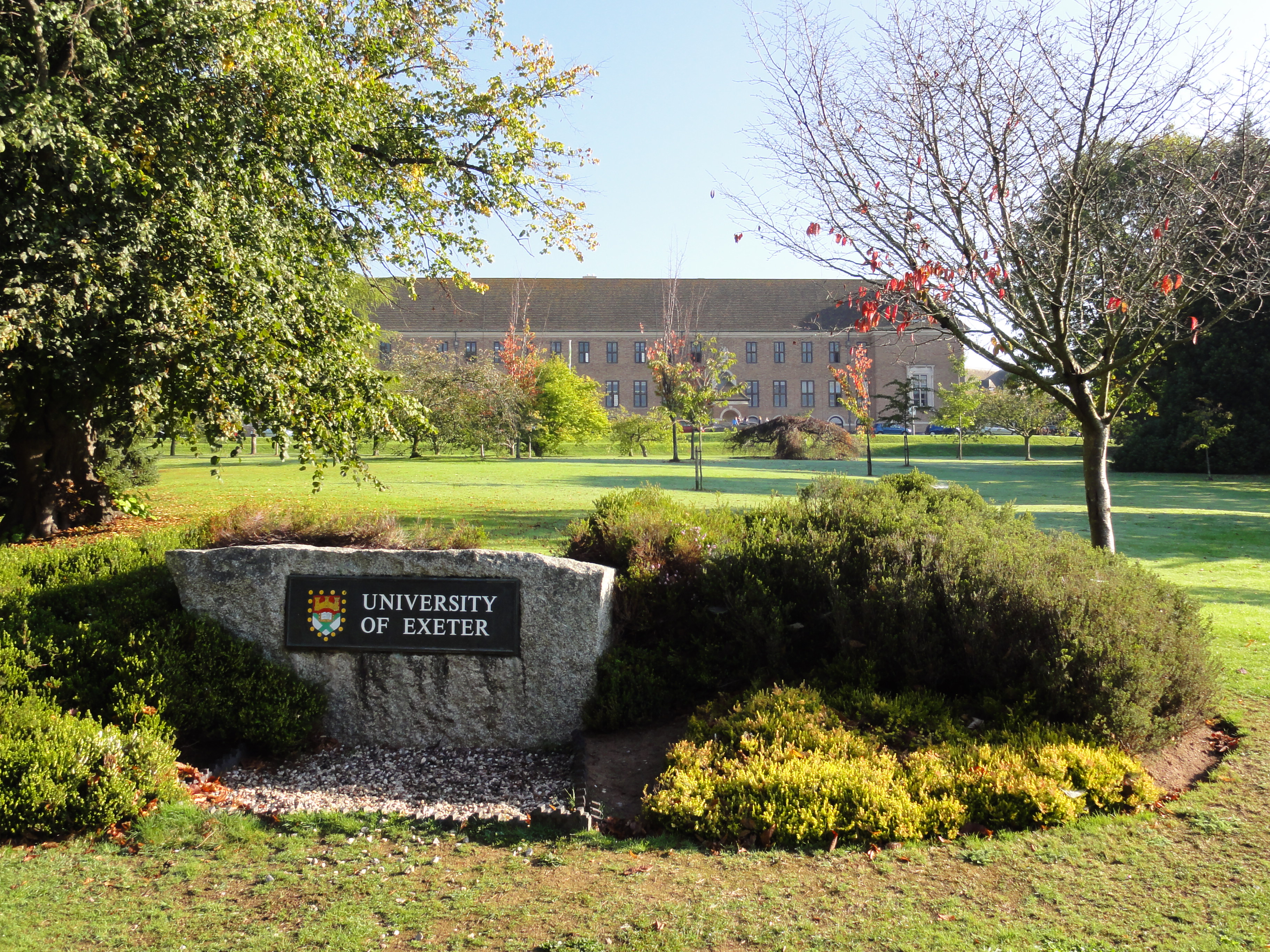 University crest with Washington Singer building